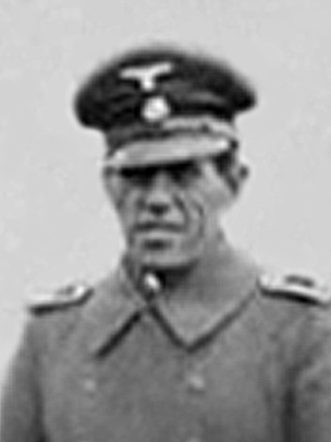 Reframing Wikicommons snapshot "File:Belzec - SS staff (1942).jpg"